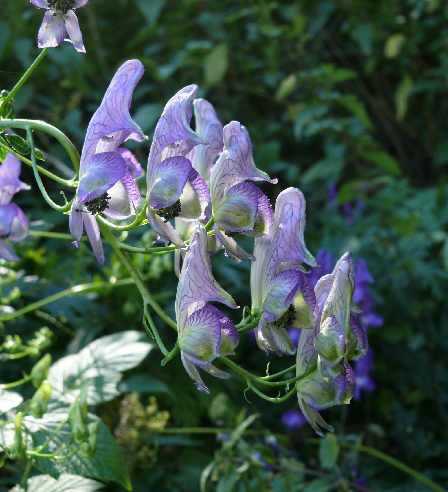 Aconitum variegatum, Härtsfeld, Germany